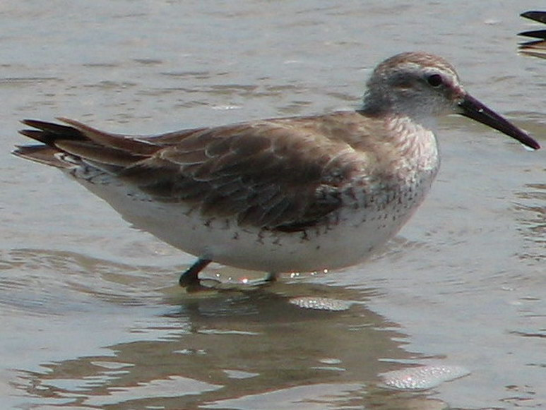 Red Knot (Calidris canutus). A nonbreeding adult at Sunset Beach, North Carolina